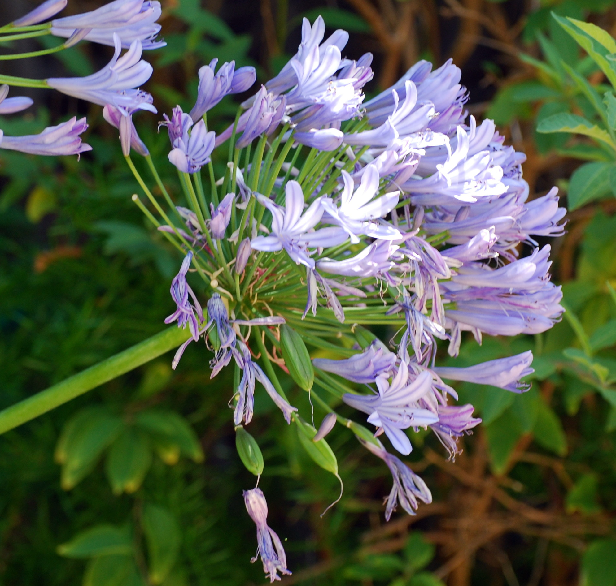 A Blue Lily (Agapanthus praecox) flower.